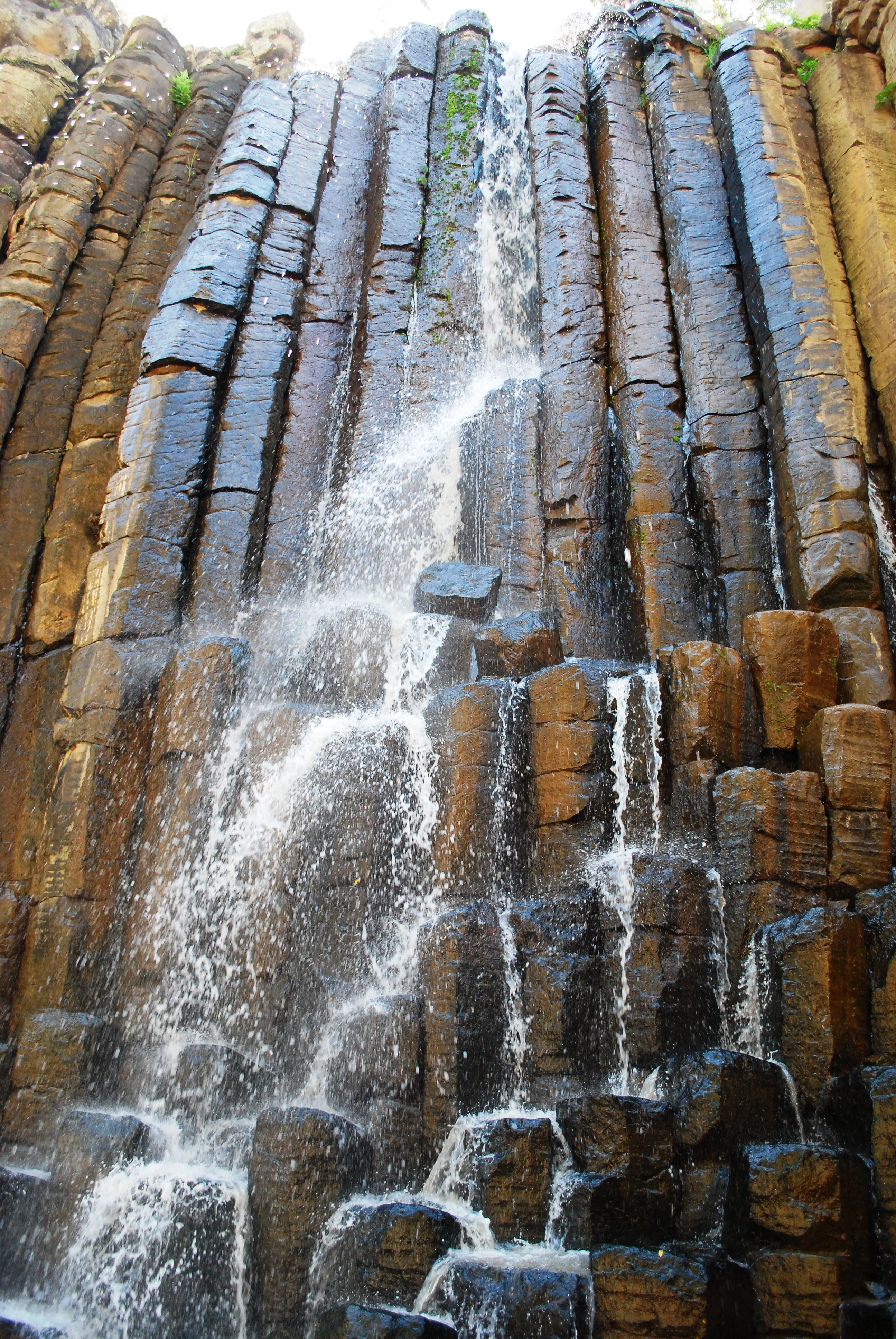 Water directed over the side opposite the waterfall of the Prismas Basalticos in Huasca de Ocampo, Hidalgo, Mexico